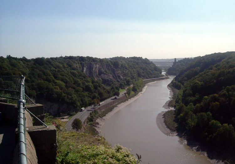 The Avon Gorge and River Avon, Bristol, taken from Clifton down.